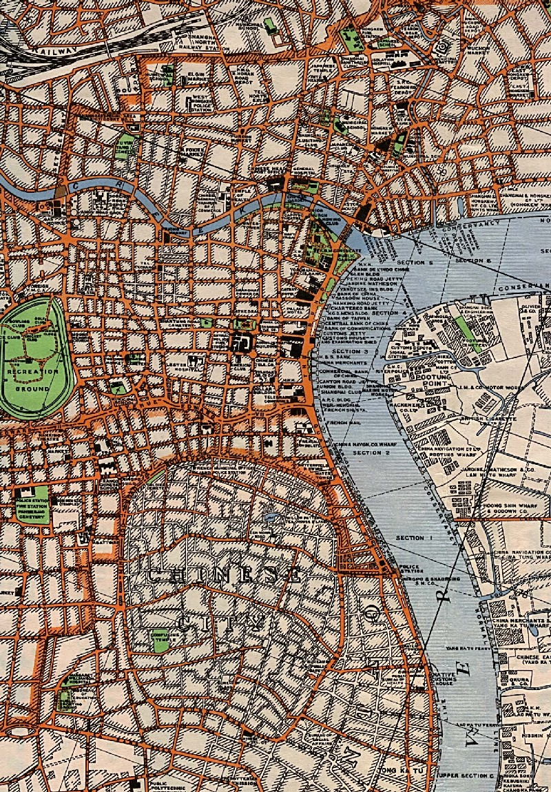 A portion of "Plan of Shanghai" (Sheet 1), original scale 1:15,840. "Heliographed at O.S. from drawings of the 1933 Municipal plan.